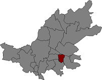 Location of Bràfim in Alt Camp